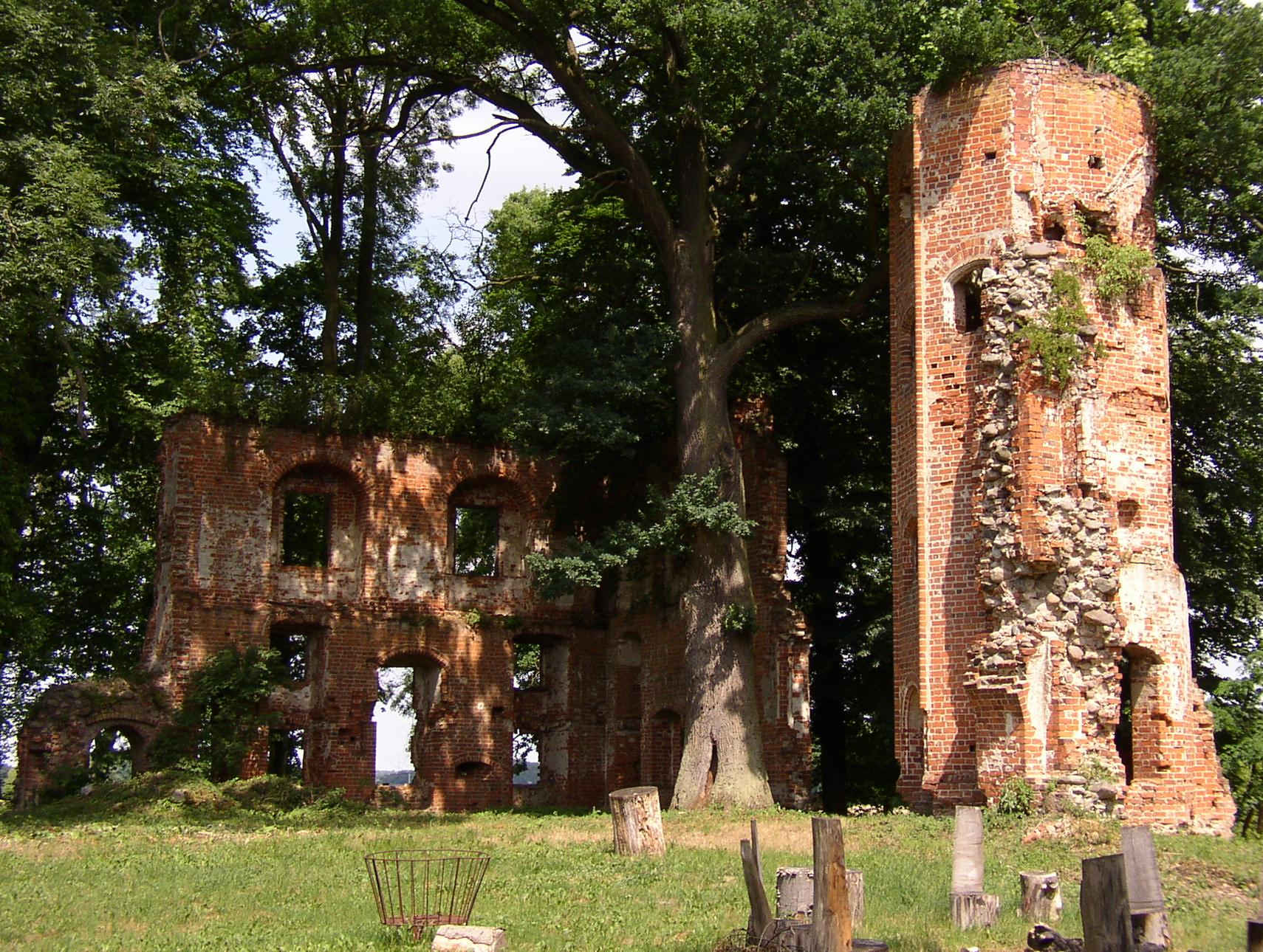 Castle ruin in Blumenthal-Horst (municipality Heiligengrabe) in Brandenburg, Germany